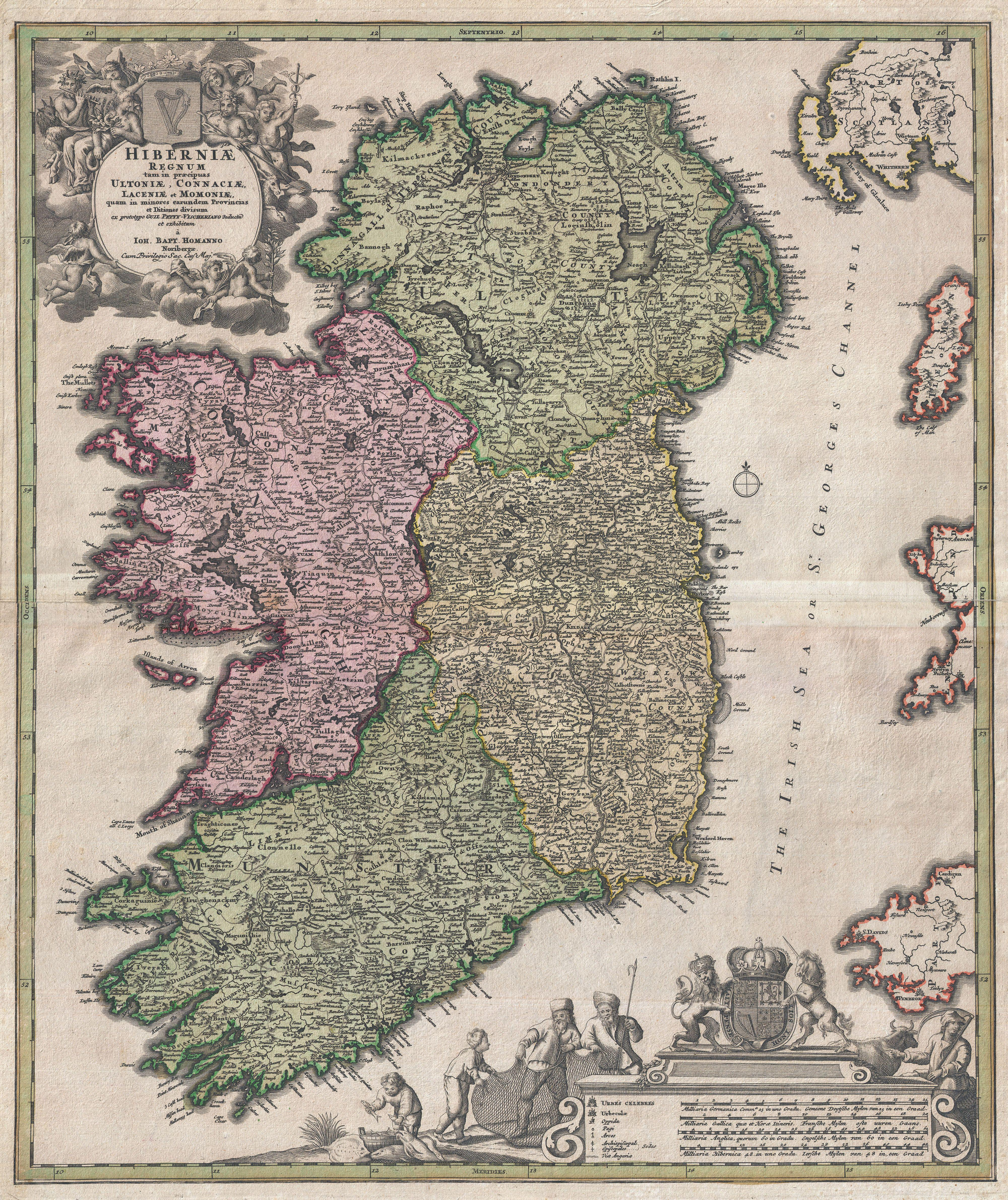 An iconic c. 1716 map of Ireland by Johann Baptist Homann. A fine example of Homann's work, this map bears all of the distinctive hallmarks of Homann's style at the height of his career: a strong dark impression, heavy yet detailed engraving work, elaborate allegorical title cartouches, and a rich but tasteful application of color. The prototype of this map was drawn in 1689 by the Amsterdam cartographer Nicholas Visscher II, who Homann credits in the title cartouche. Visscher's map became the model for most future maps of Ireland well into the late 18th century. Homann revised and updated this map to reflect early 18th century changes to the island. Here Ireland is divided into its four provinces, Munster, Connought (Connacht), Leinster (Lenister) and Ulster, then subdivided into numerous counties. Roads, mountains, forests, swamps, rivers, lakes, bridges towns, and even some offshore details are noted. The elaborate title cartouche in the upper right is rich with Gaelic iconography, including the Gaelic Harp and allegorical representations of Pan, a Celtic adaptation of the Roman god Bacchus, and Brigit, the Celtic goddess of poetry, healing and agriculture. Another cartouche in the lower right hand quadrant frames the map's key and four distance scales. Here we see four fisherman pulling in the day's haul, a clear nod to Visscher, who's Dutch name translates to Fisherman. Above the map key itself is the royal crest of the United Kingdom, who at the time laid claim to Ireland. This map was published in various editions from about 1710 to 1750. The addition of Homann's Privilege to the title cartouche suggest this may be the second state of this map, published sometime between 1715 and Homann's death in 1720. In all a fine map example of Homann's work and an important and influential map of Ireland. Homann erroneously shades County Clare as part of Connought - it had been returned to Munster in 1660.